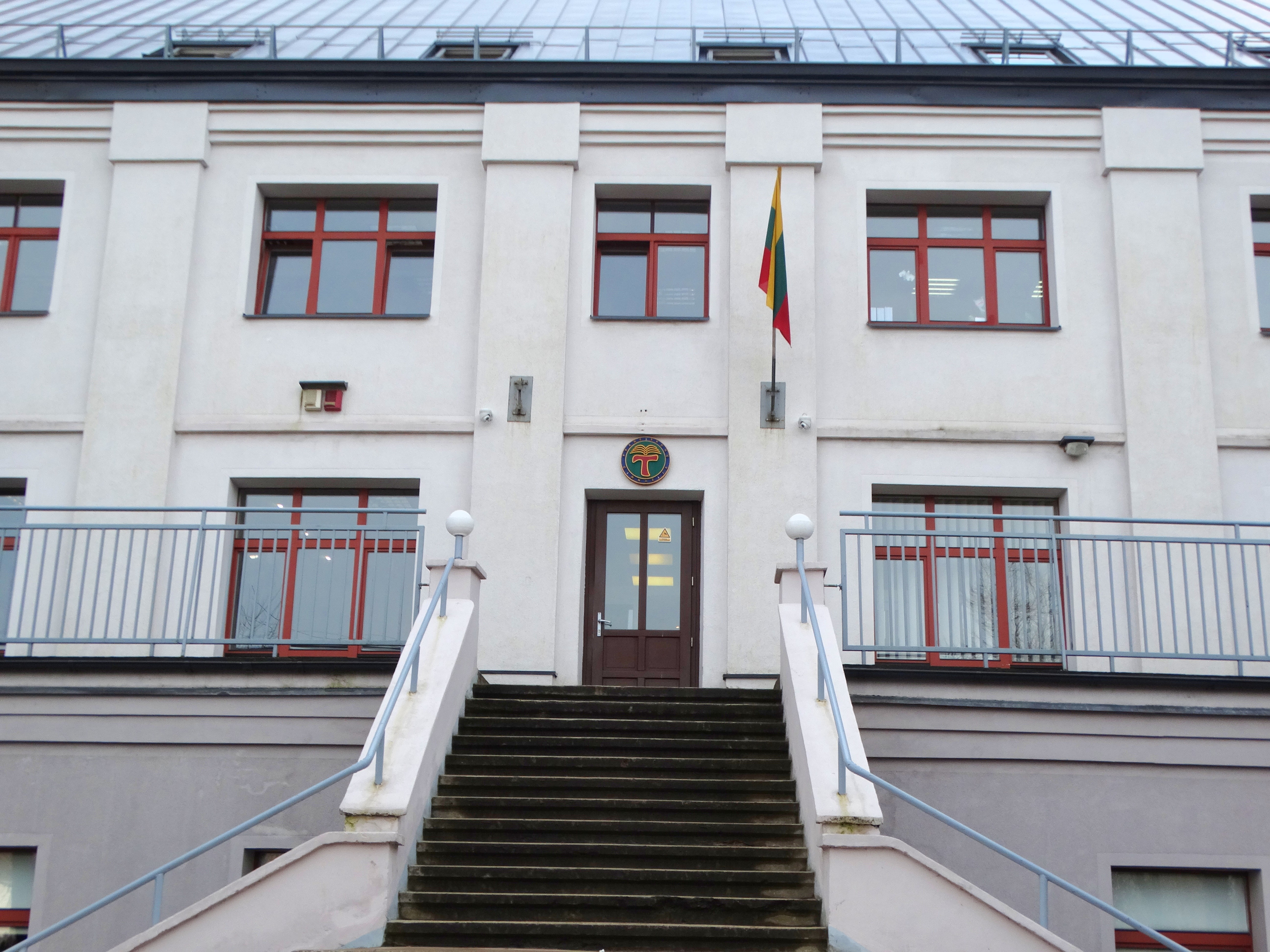 Franciscan Gymnasium, Kretinga, Lithuania